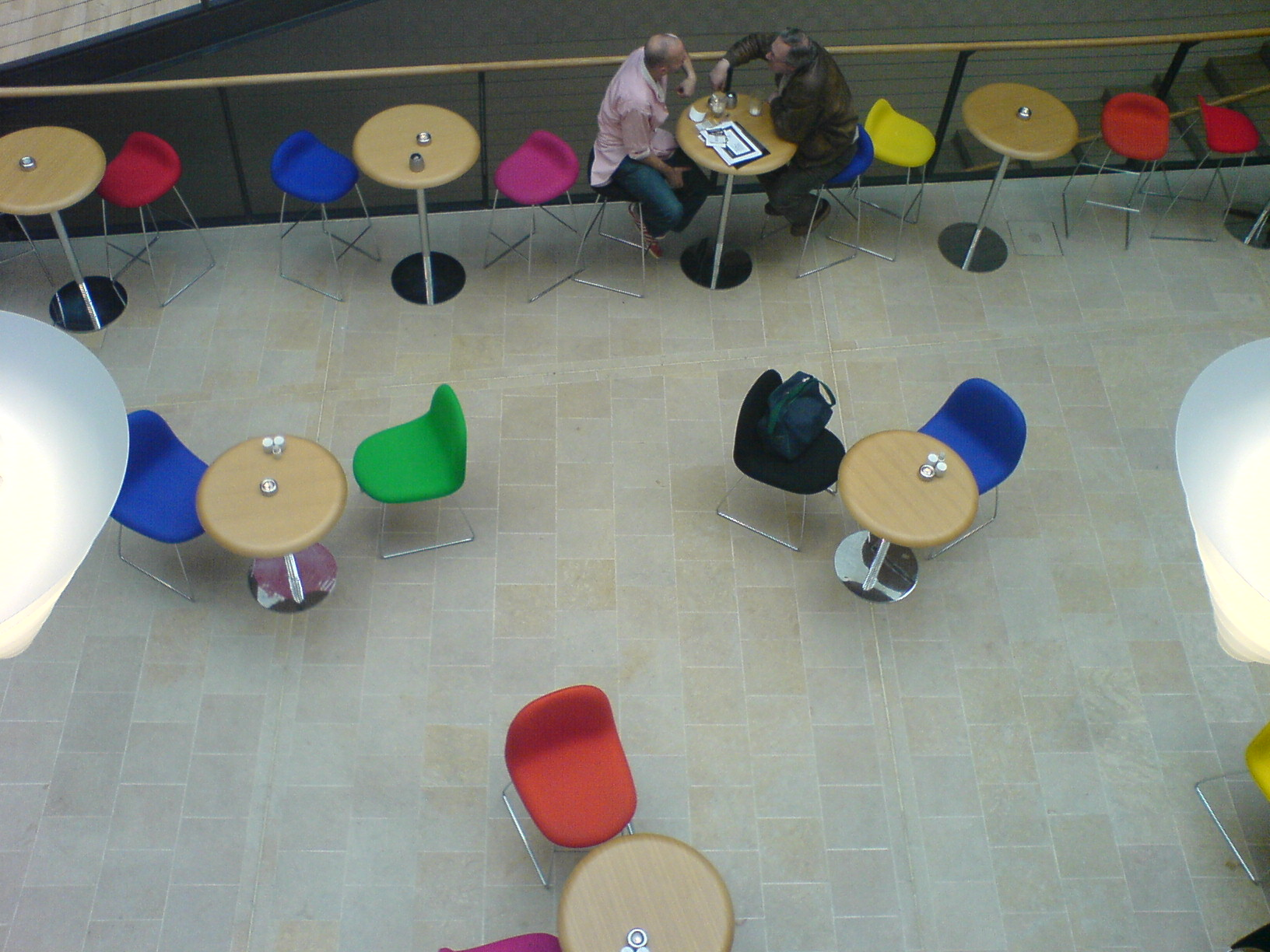 GUBI chairs in the café at the Danish Design Centre. They are designed by Komplot Design for Danish furniture and design brand GUBI